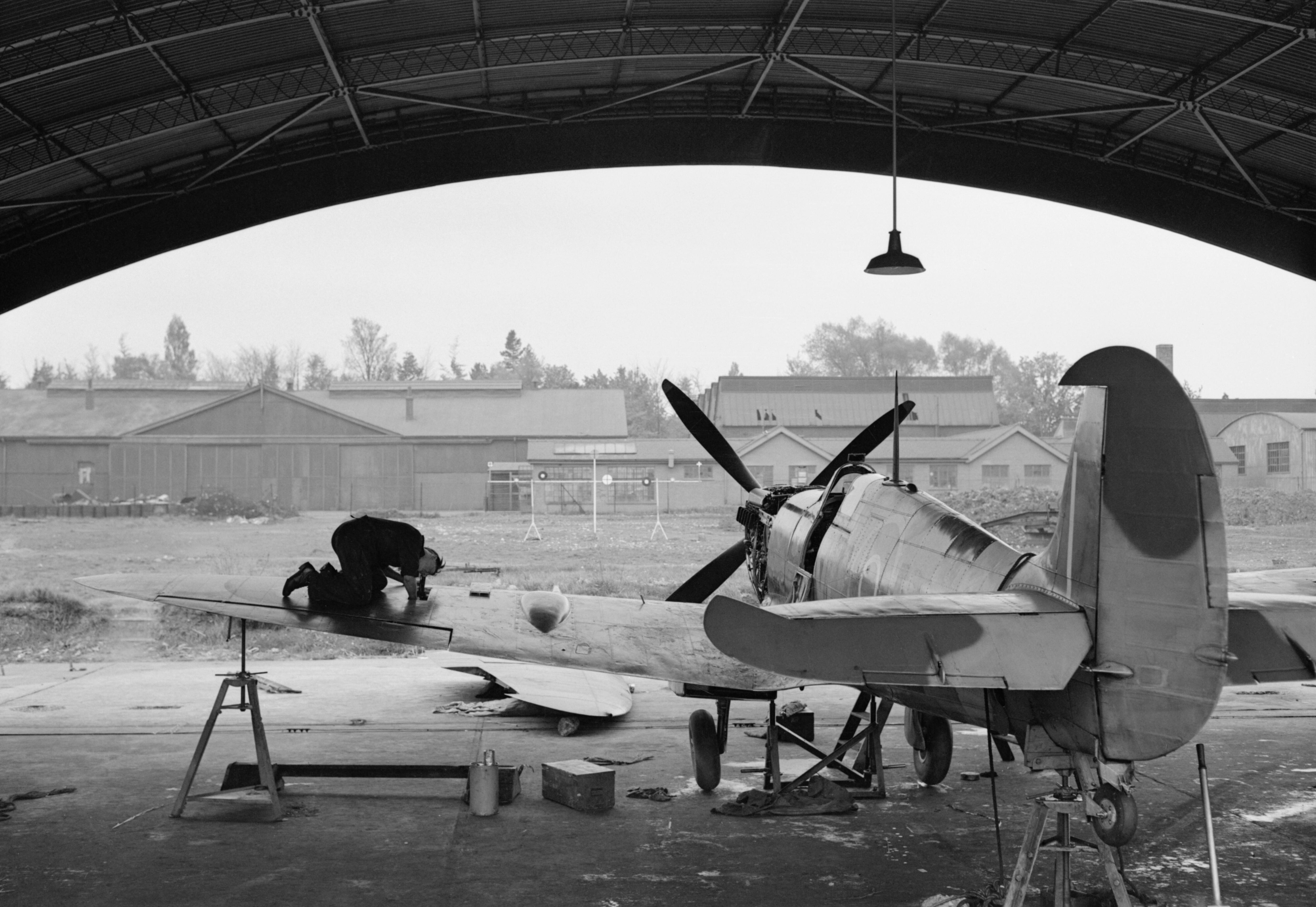 Royal Air Force Fighter Command, 1939-1945. An armourer of No. 3101 Servicing Echelon uses a periscope unit to adjust one of the .303 Browning machine guns on a Supermarine Spitfire Mark IXB of No. 341 (Free French) Squadron RAF, jacked up before a gun harmonization board at Biggin Hill, Kent.